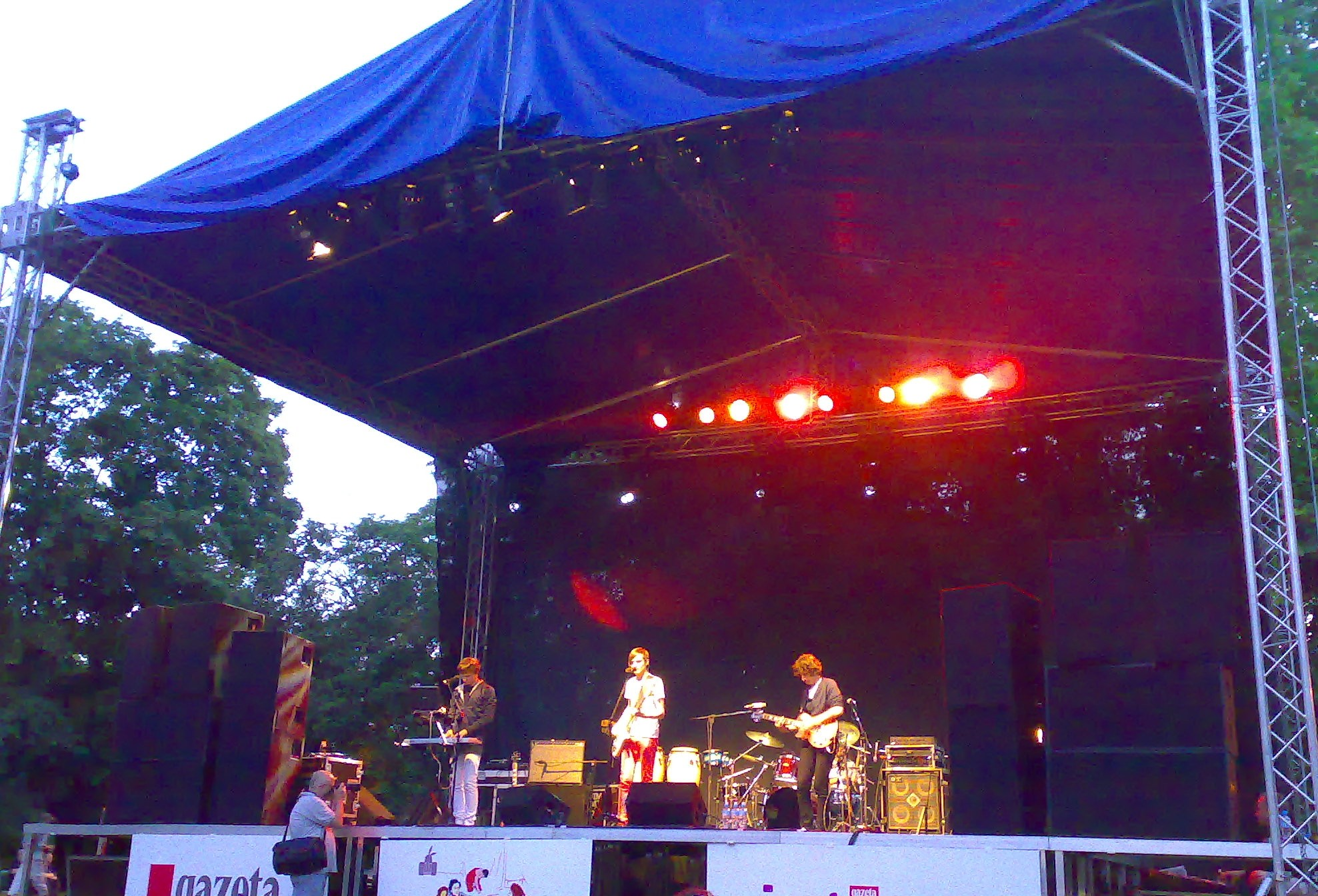 Polish indie rock band Out of Tune in the concert (16/06/2007, Królikarnia, Warsaw)